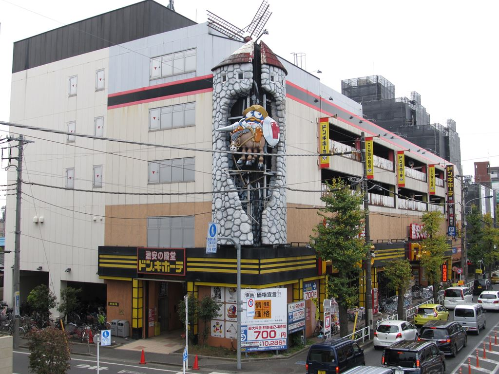 Don Quijote Co., Ltd. #1 fuchu,tokyo